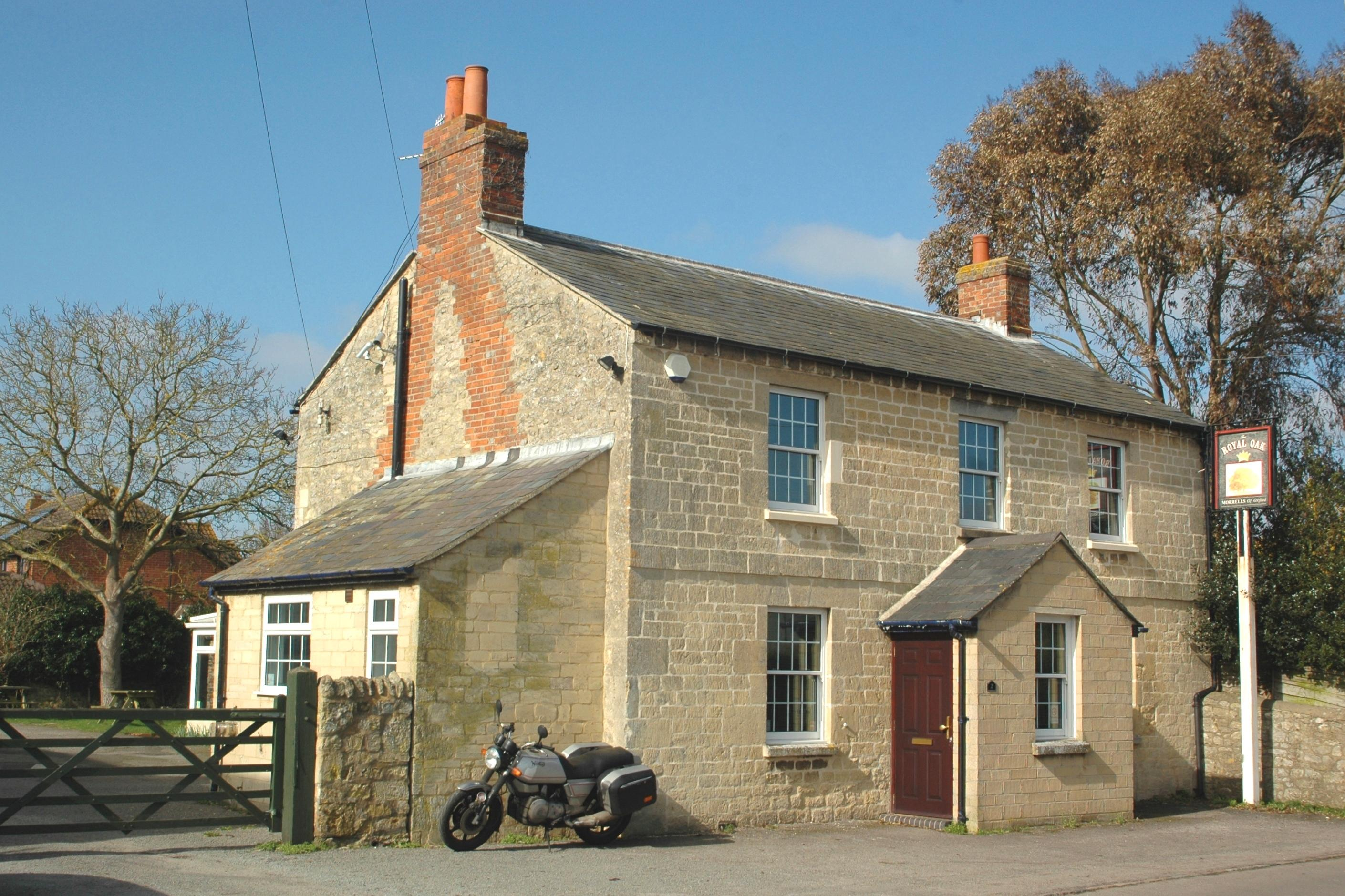 The Royal Oak public house, 2 Bridge Road, Worminghall, Buckinghamshire